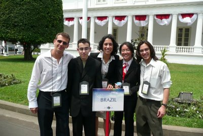 Equipe brasileira da IOAA 2008.